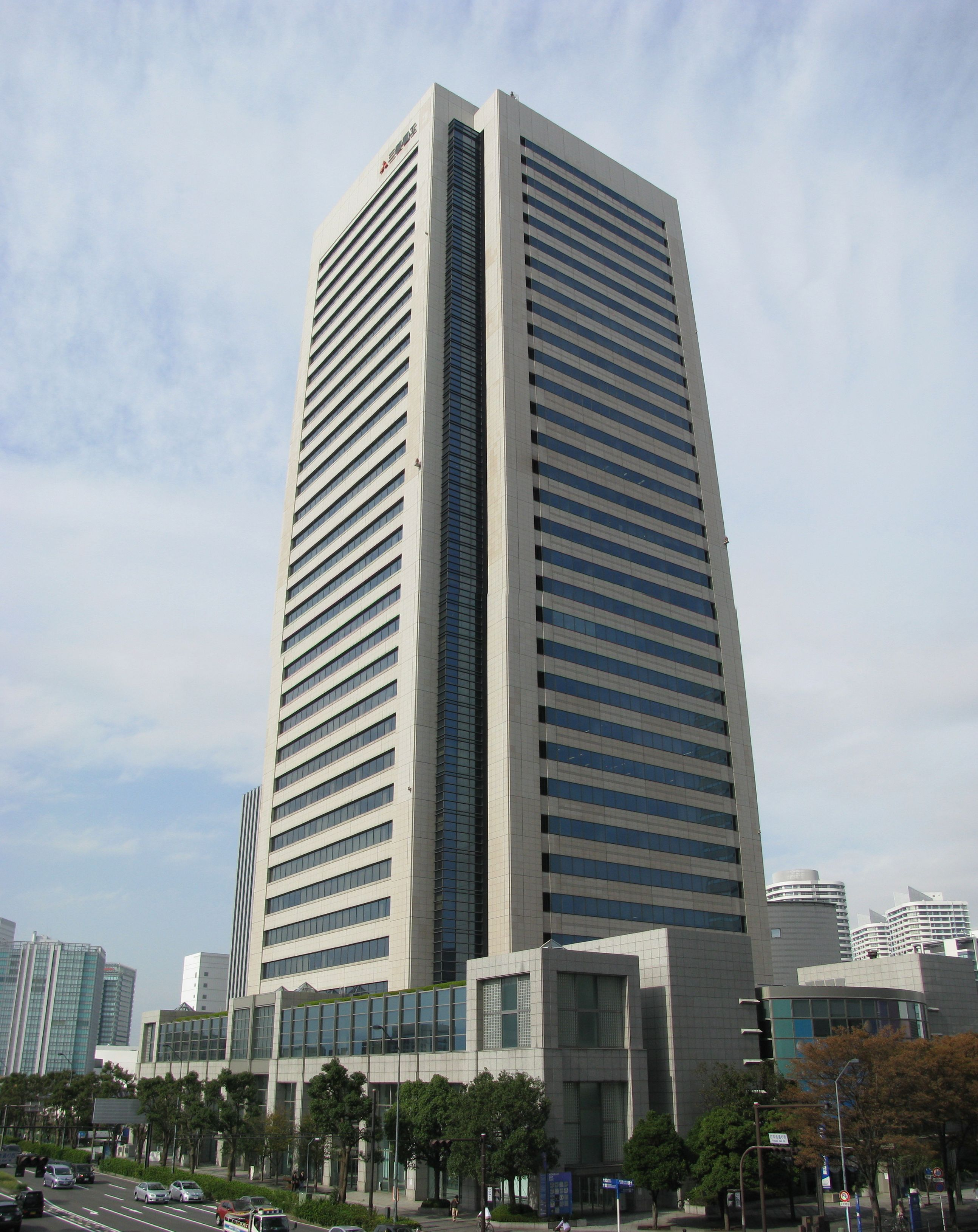 The Mitsubishi Heavy Industries Yokohama Building. This location is Minato Mirai in Nishi-ku, Yokohama, Kanagawa Prefecture, Japan.